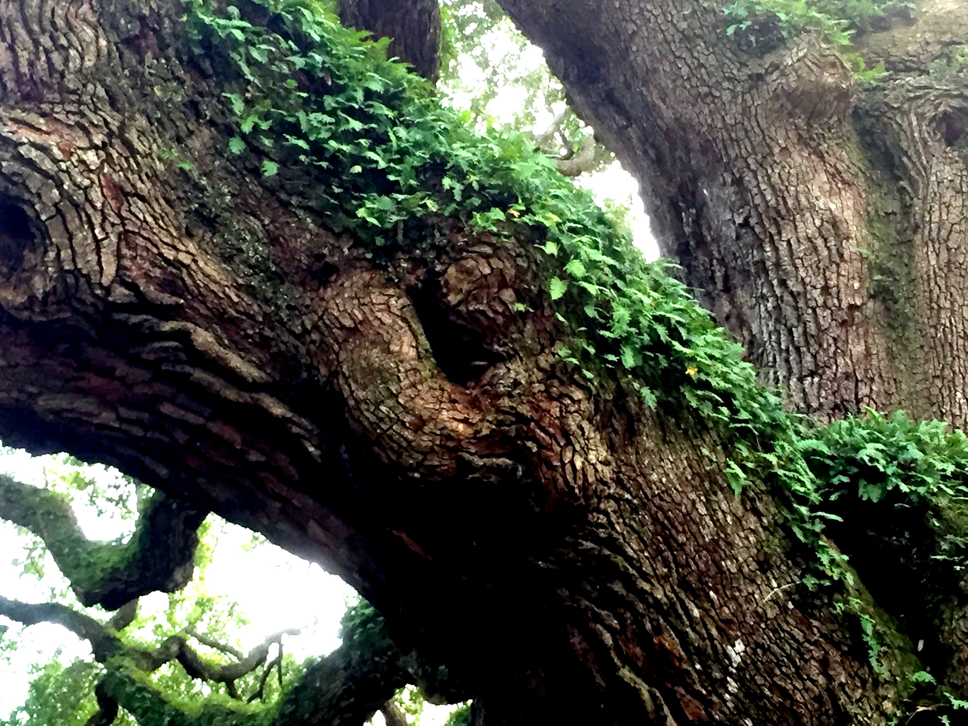 ferns and other greenery grow along the Angel Oak's massive branches